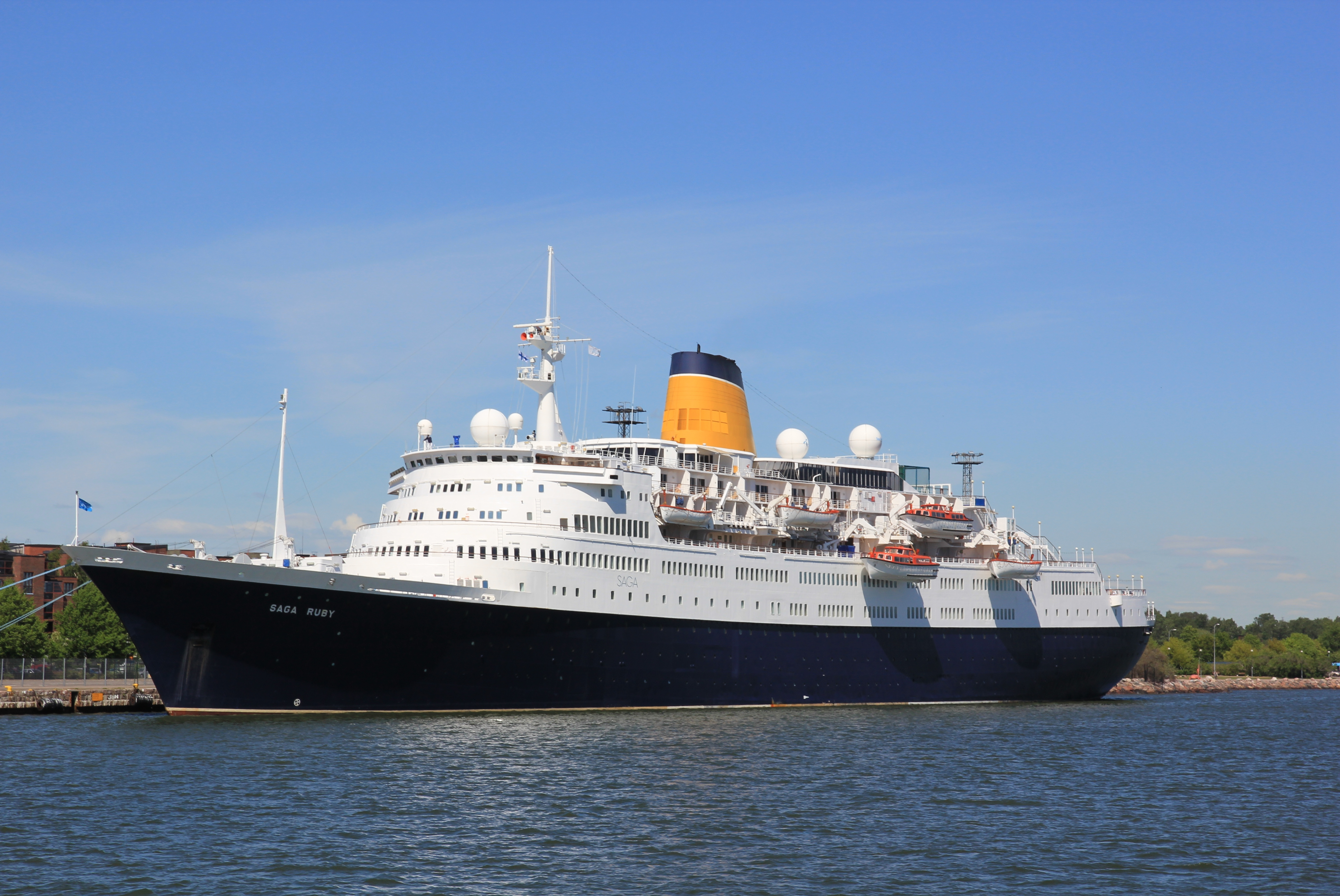 Cruise ship Saga Ruby in Helsinki South Harbour at Katajanokka cruise ship pier.